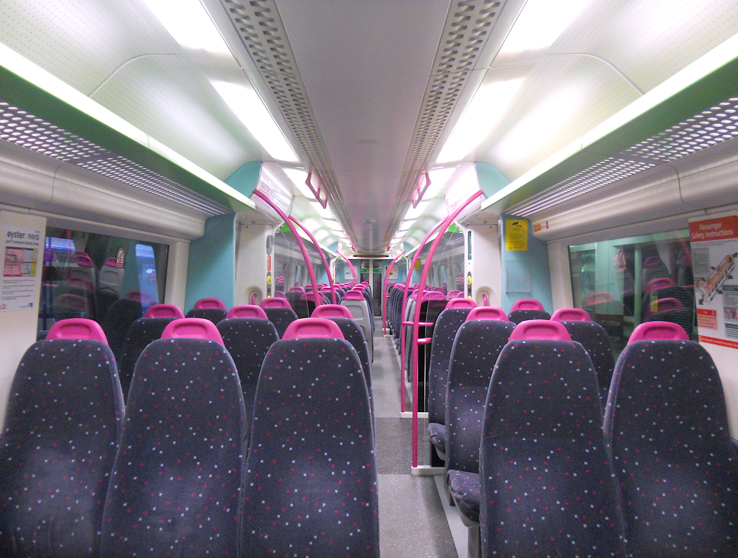 The interior of a refurbished Class 357 Electrostar